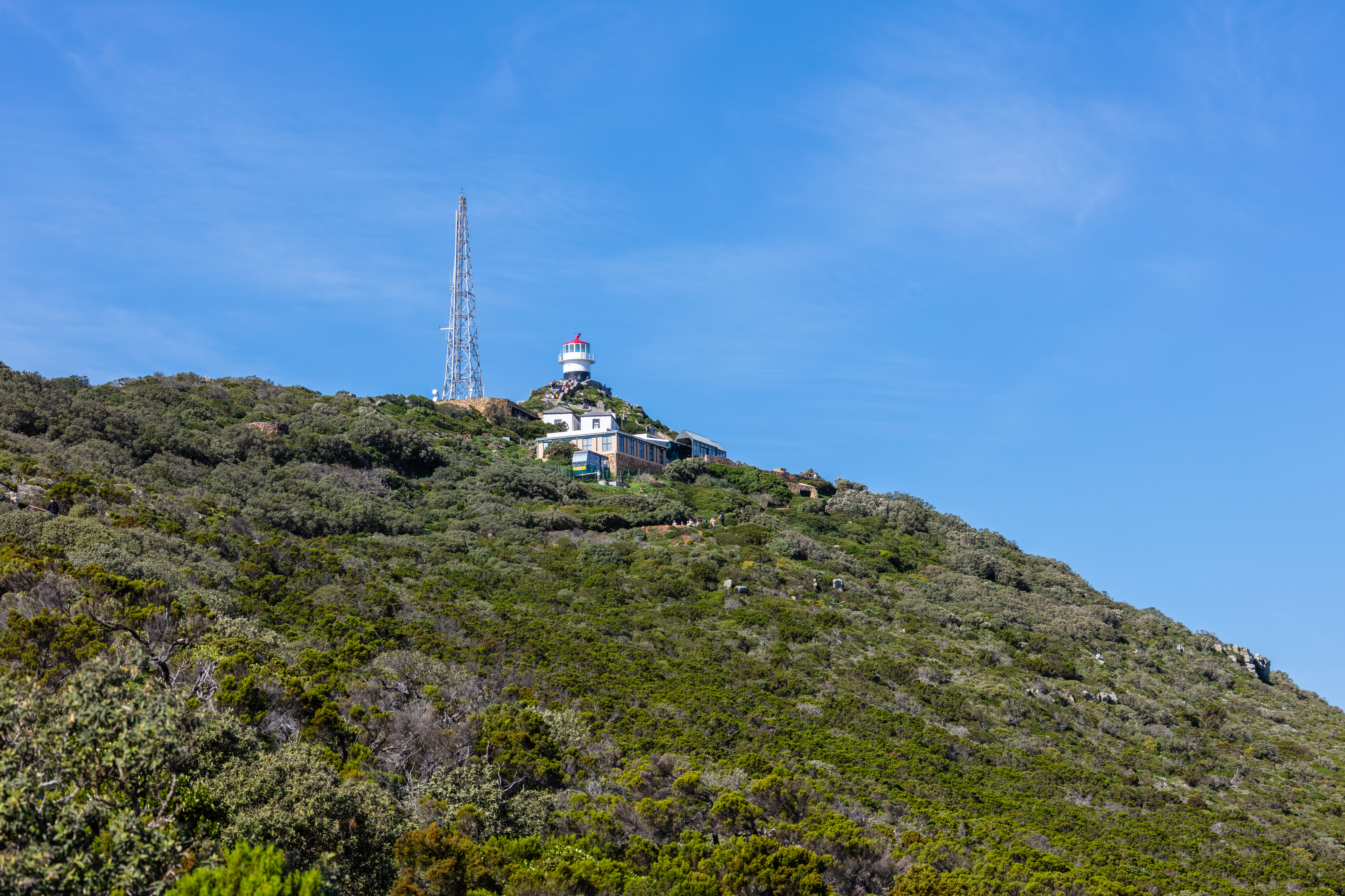 Old Cape Point Lighthouse, South Africa